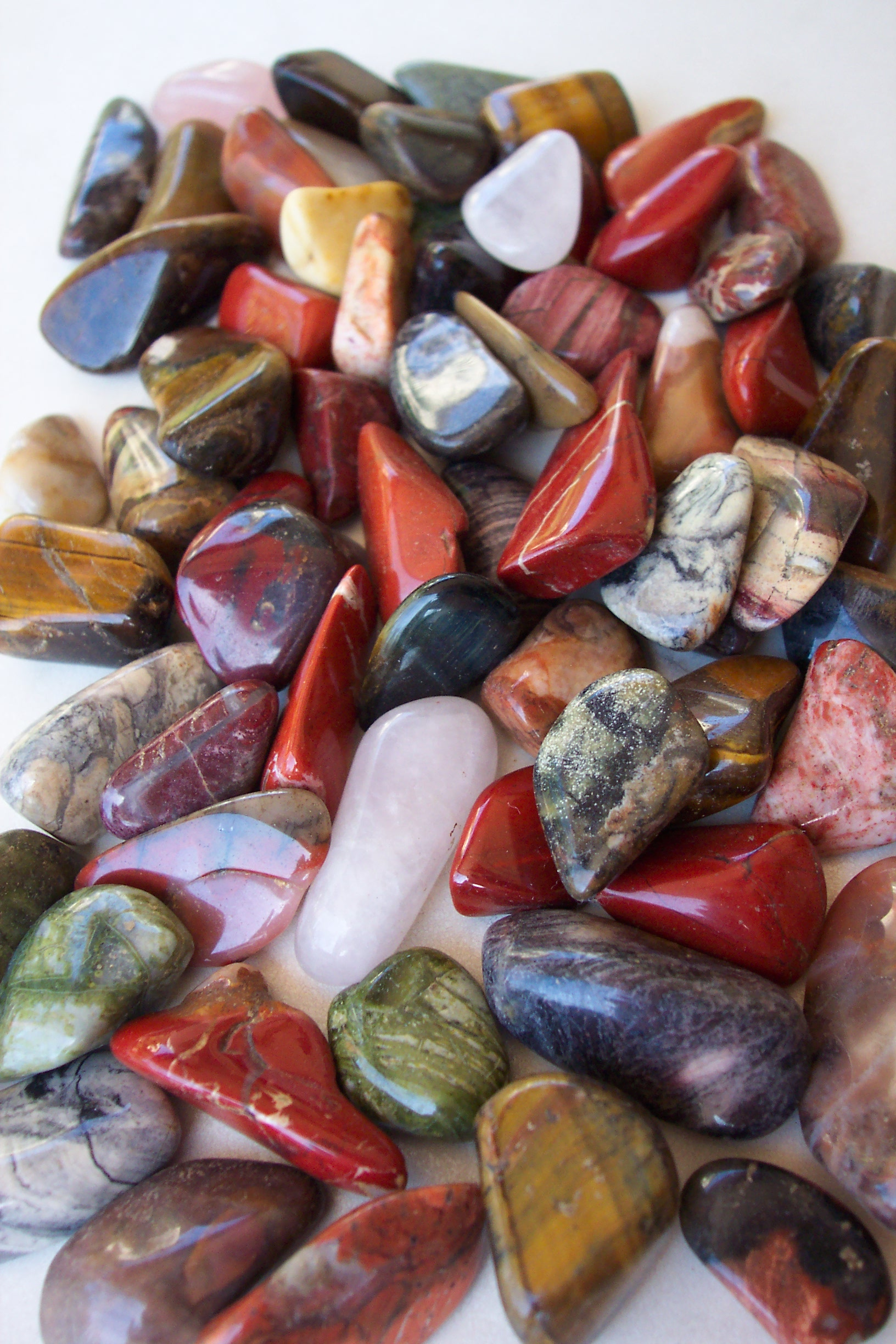 Stones in Israel